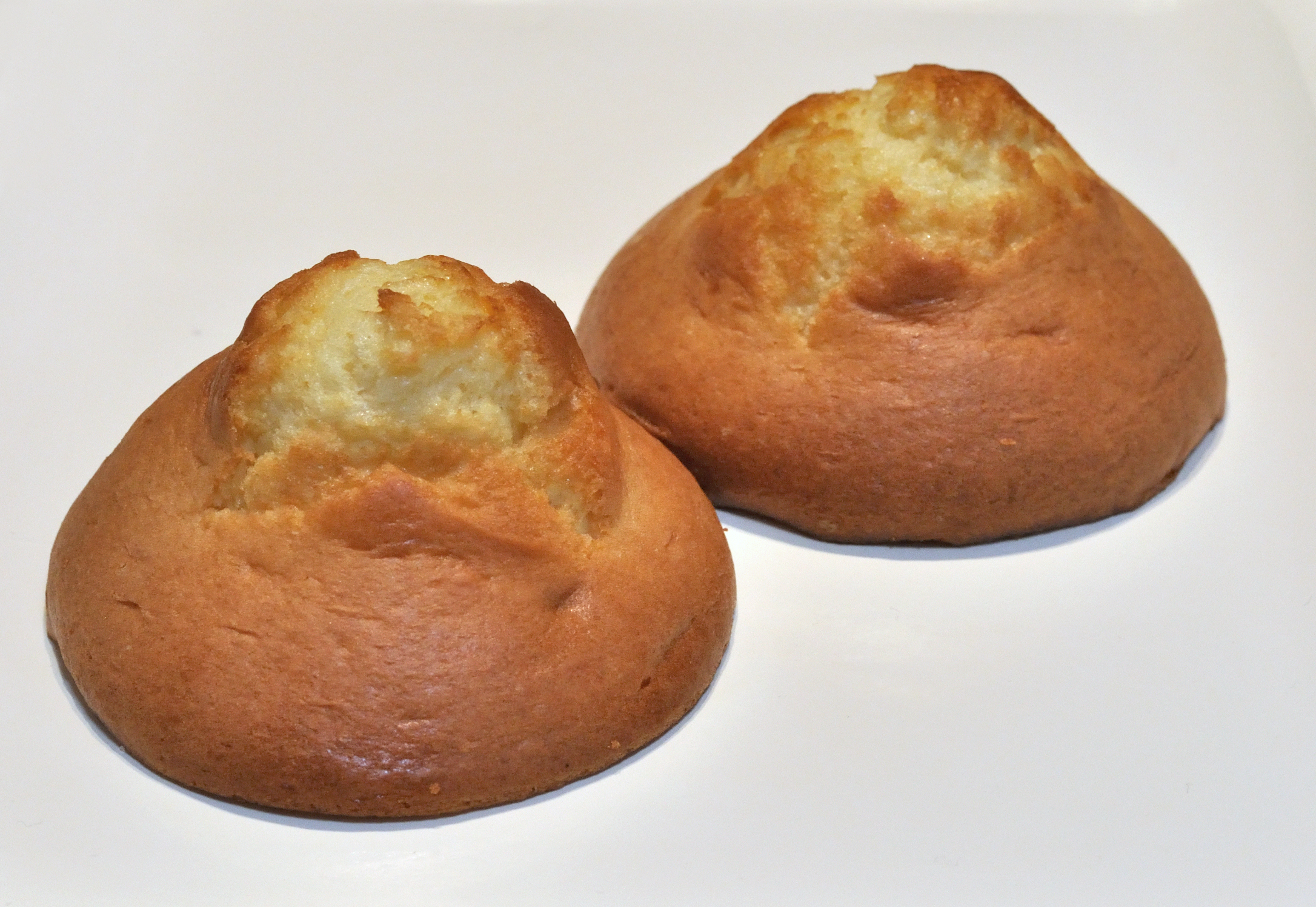 Ama-shoku